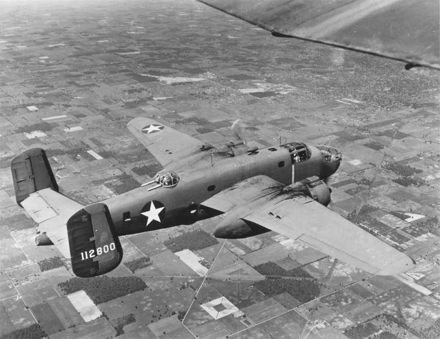 North American B-25C Mitchell. (23519 A.C.)